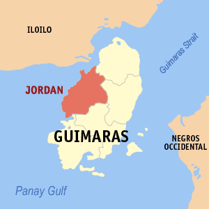 Map of Guimaras showing the location of Jordan